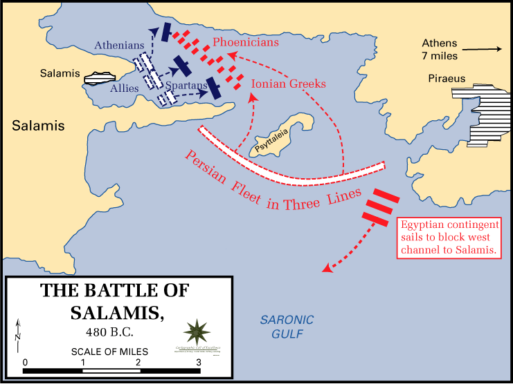 Battle of Thermopylae and movements to Salamis, 480 BC